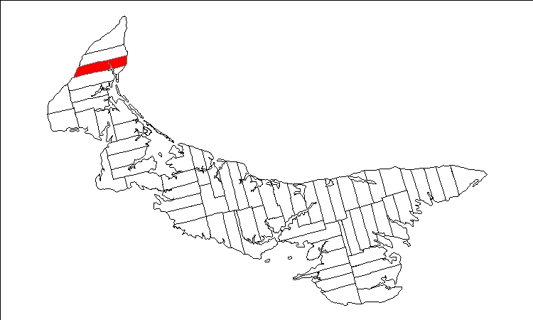 Public domain map of Prince Edward Island created by User:Plasma east with data courtesy of Geogratis, modified to show townships. Released under GFDL (self).